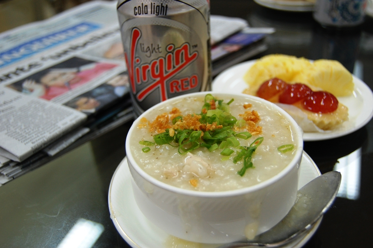 Arroz Caldo, Grape Custard, Fruits, Virgin Light (at Philippine Airlines Mabuhay Lounge, Mactan Cebu International Airport)